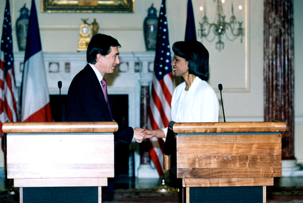 Condoleezza Rice and Philippe Douste-Blazy on July 5, 2005 in Washington, D.C..